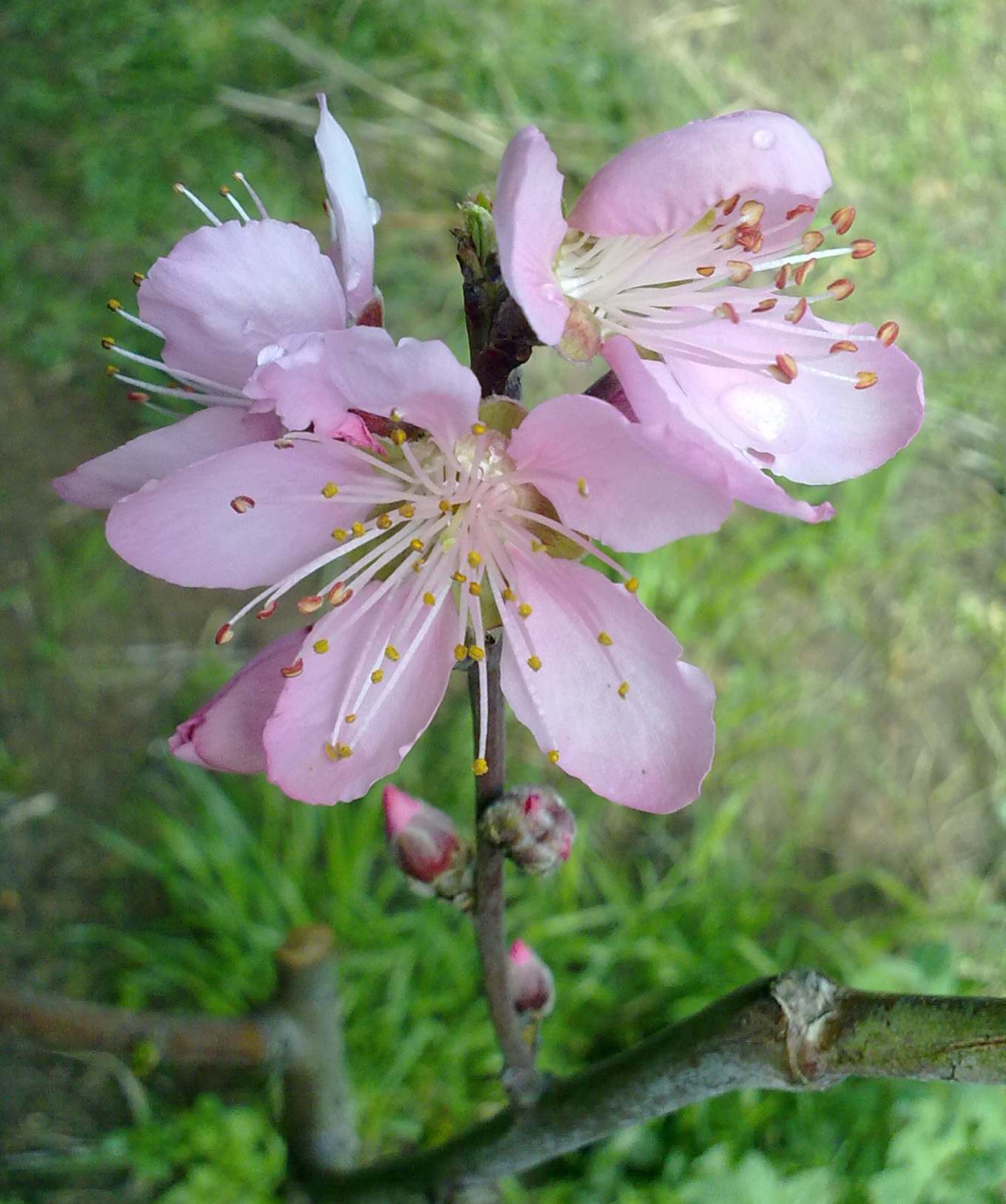 Flowers of Prunus persica var. platycarpa (paraguayan or flat peach) Flores de Prunus persica var. platycarpa (paraguayo)